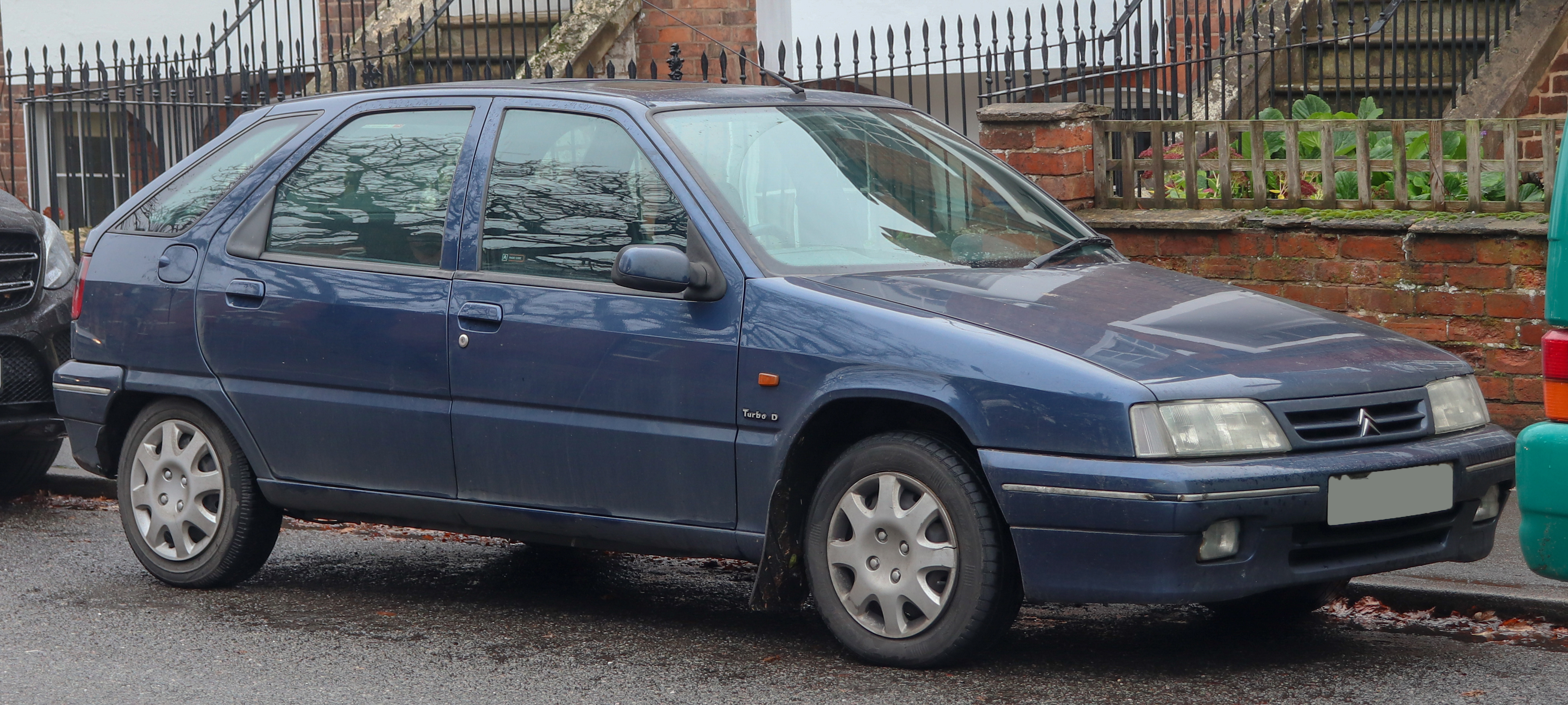 1995 Citroen ZX Memphis TD 1.9 Front Taken in Leamington Spa